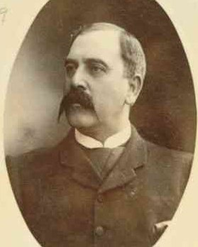 Formal portrait of Charles Tucker (mayor), member for Alexandra